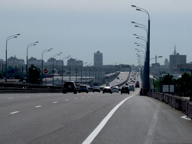 Krasnopresnensky Prospect